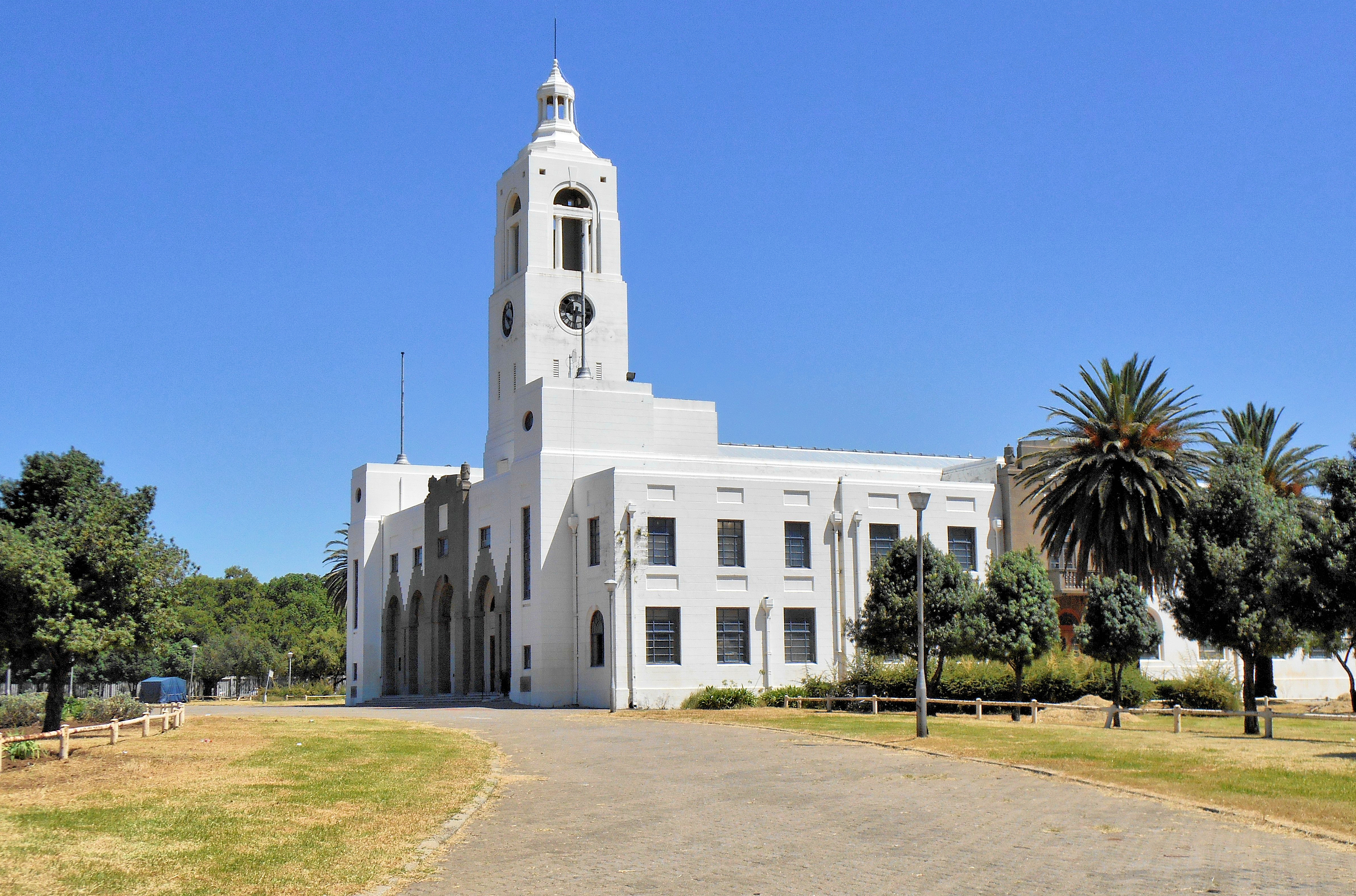 Benoni City Hall, Gauteng, South Africa